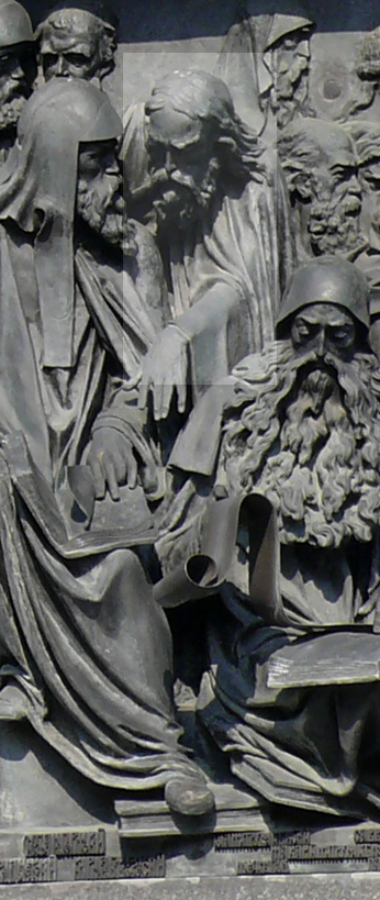 Sergius of Radonezh on the Monument "Millennuim of Russia" in Veliky Novgorod